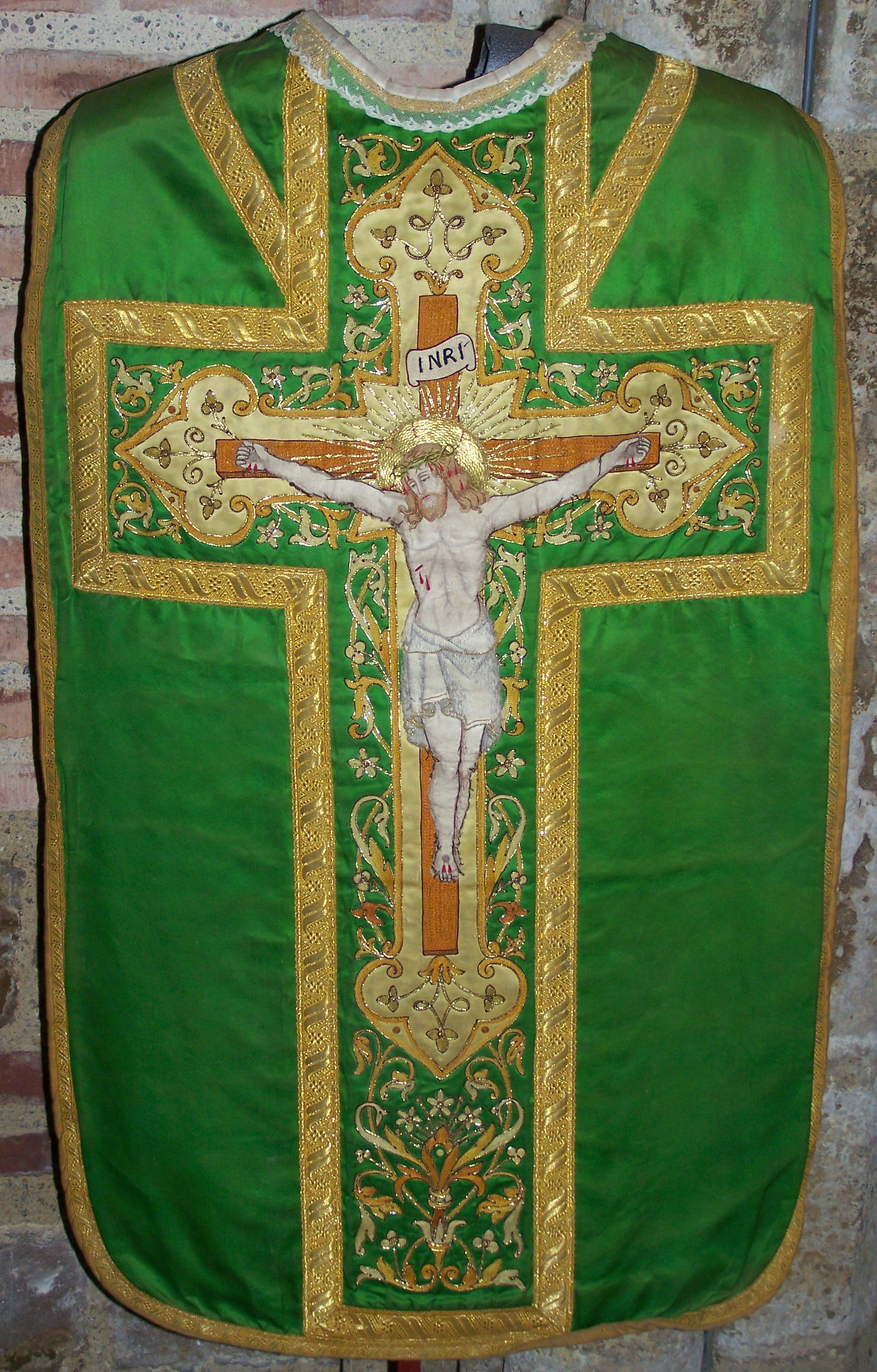 Embroidered chasuble on green silk, Cathédrale de Lombez